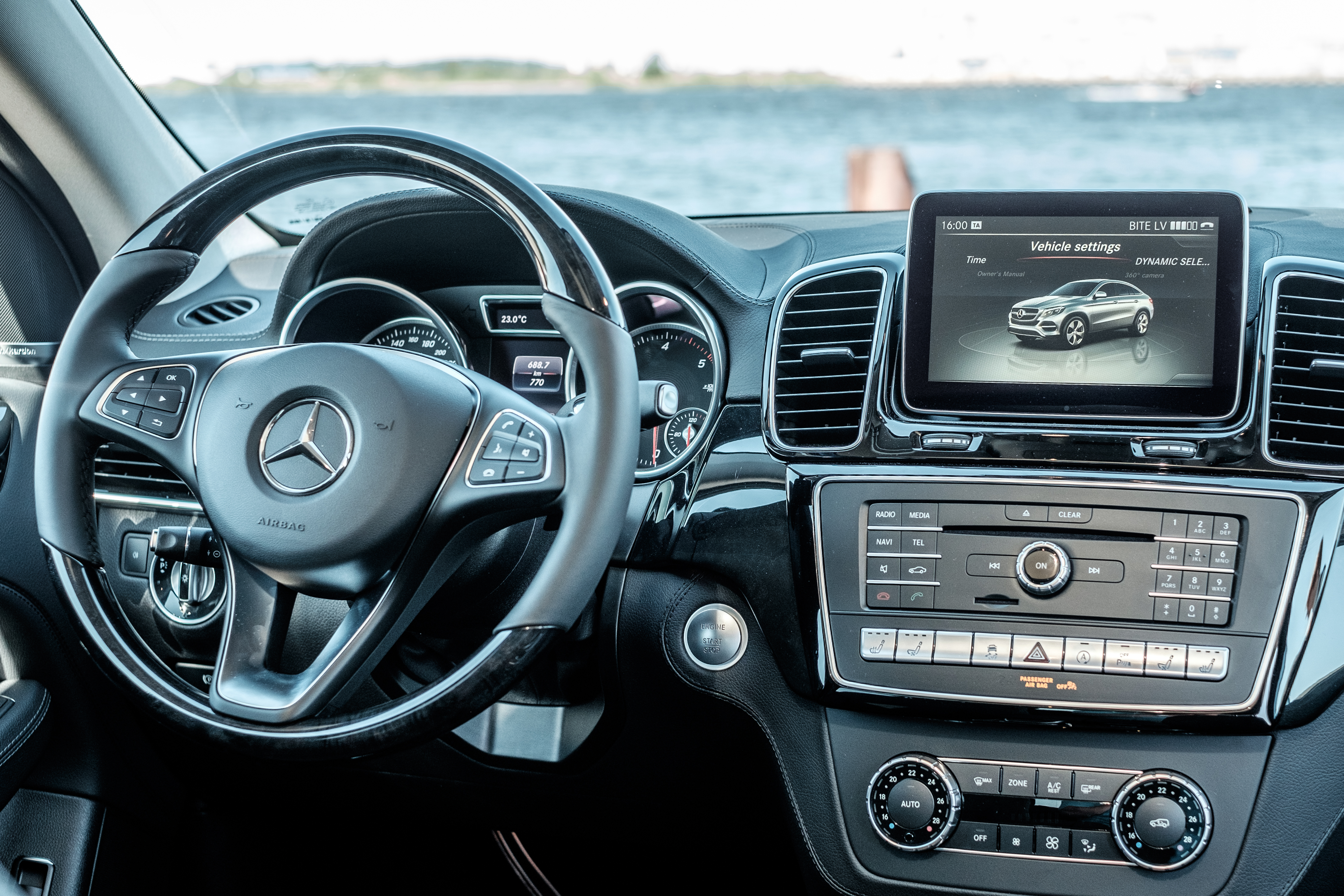 Mercedes GLE Coupe